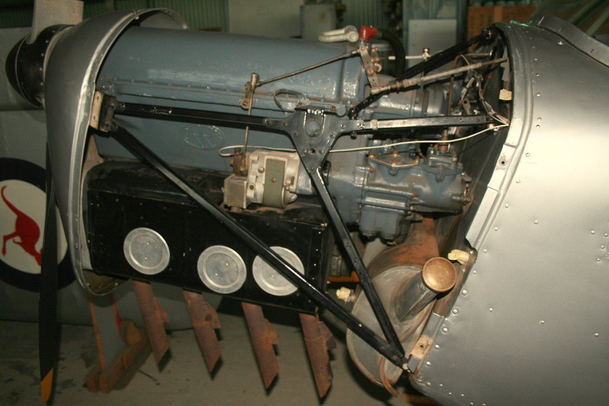 Left-side view of a Blackburn Cirrus Major 3 inline engine, fitted to a non-airworthy Auster J/5G.)